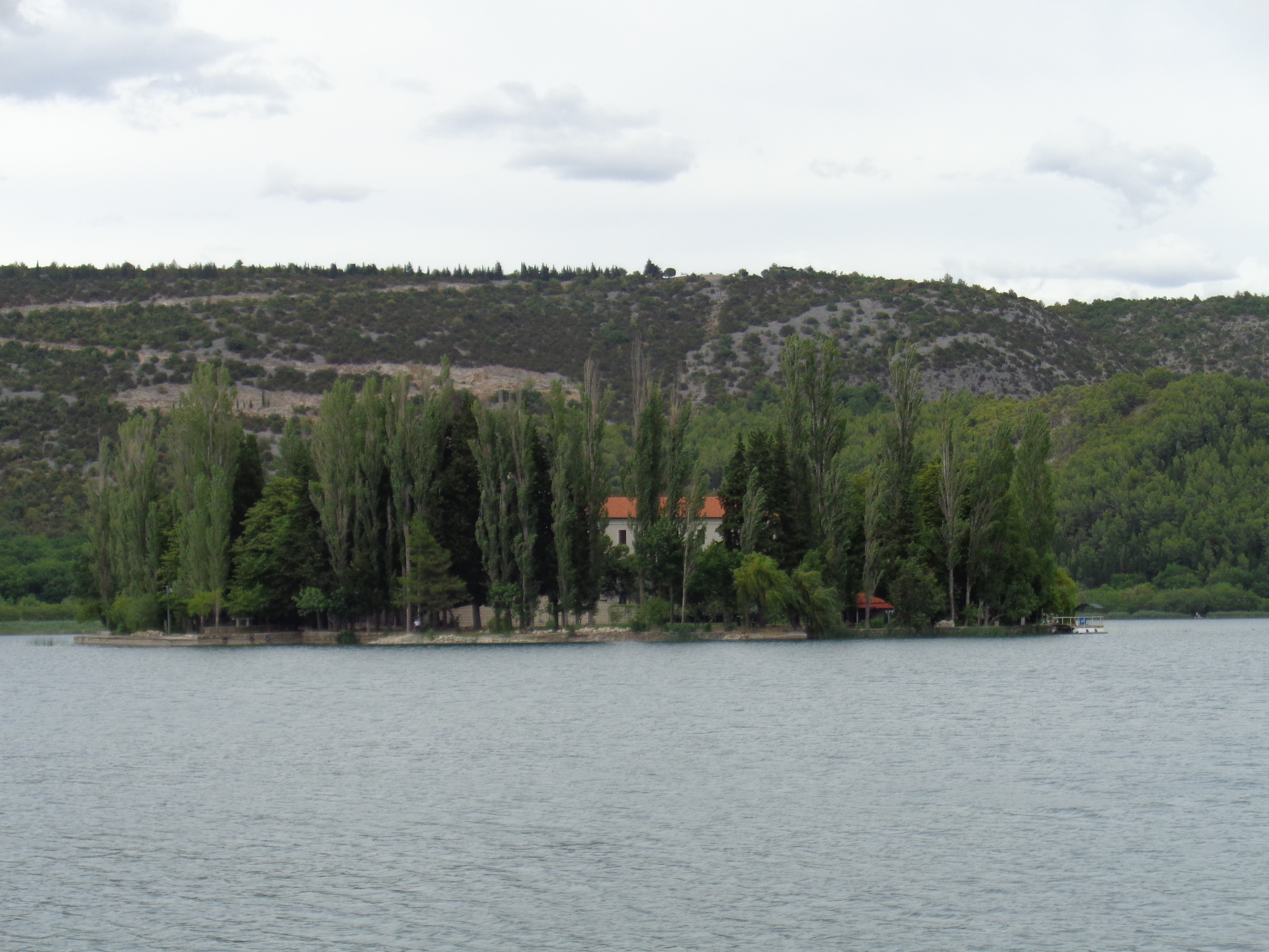 Visovac Island with Catholic monastery on the Visovac Lake, Krka National Park, Šibenik-Knin County, Croatia